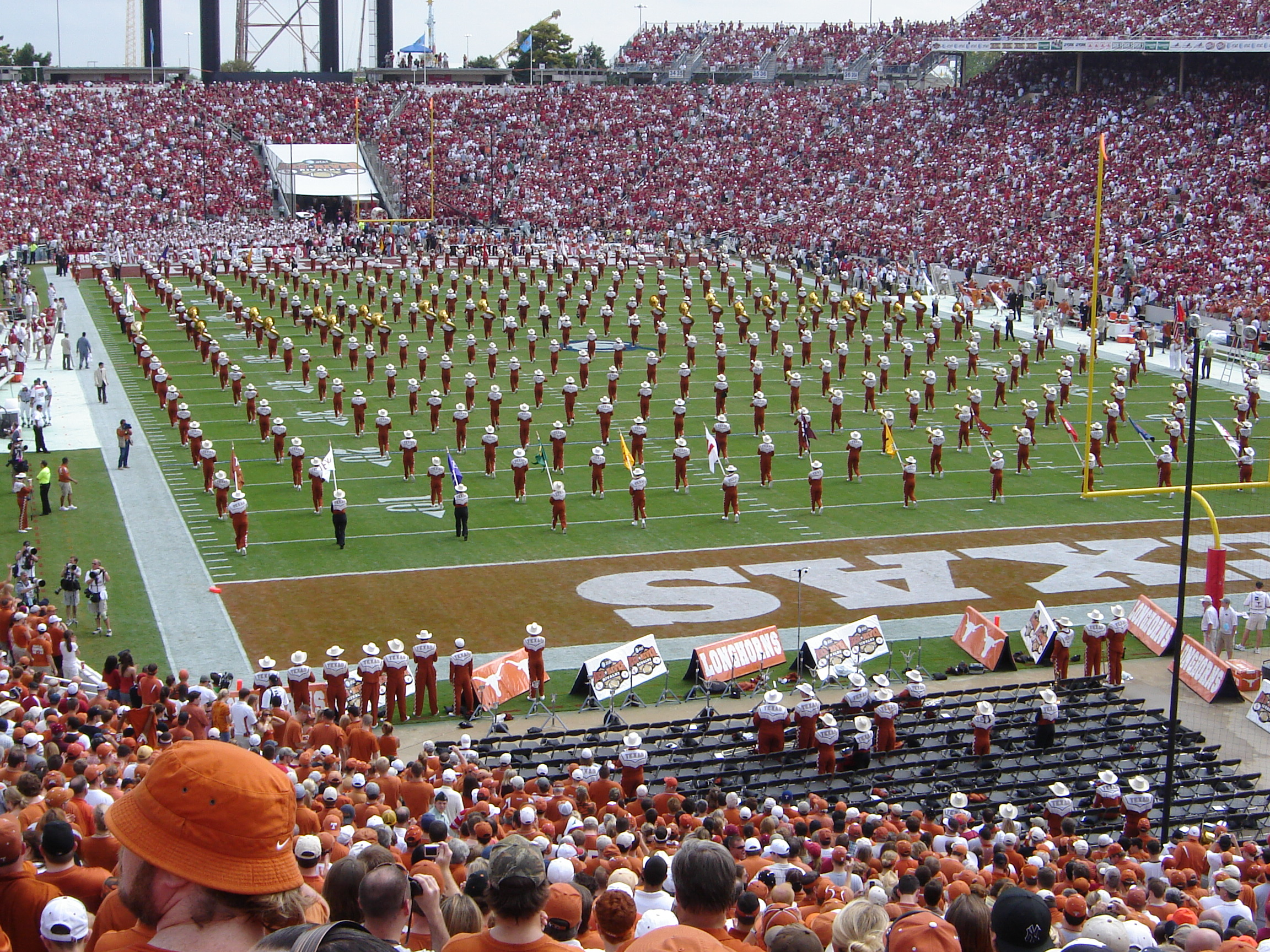 The University of Texas Longhorn Band at the Red River Shootout 2007. See also 2007 Texas Longhorn football team.